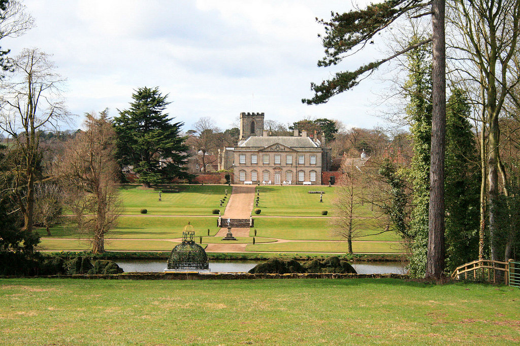 Melbourne Hall From Melbourne Park. The hall was the seat of William Lamb, 2nd Viscount Melbourne, after whom the more famous Melbourne in Australia was named.